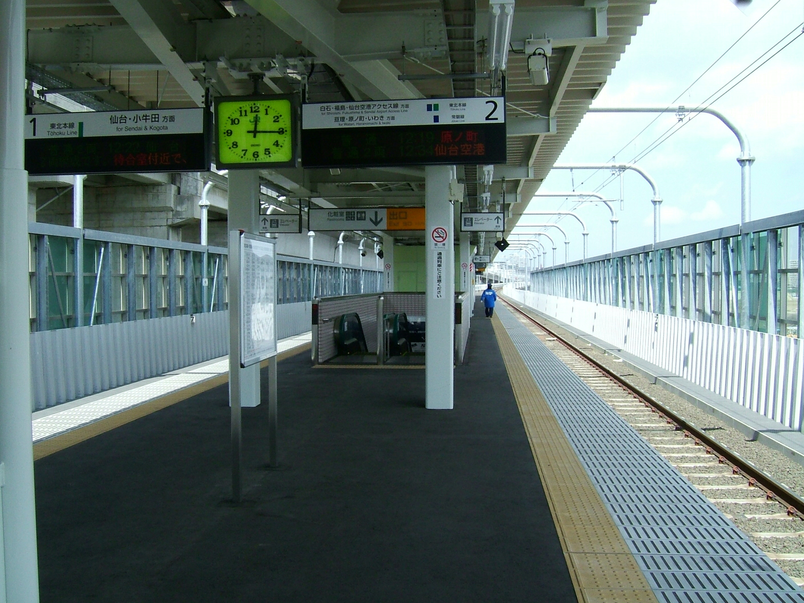 The platform at Taishido Station on the Tohoku Main Line